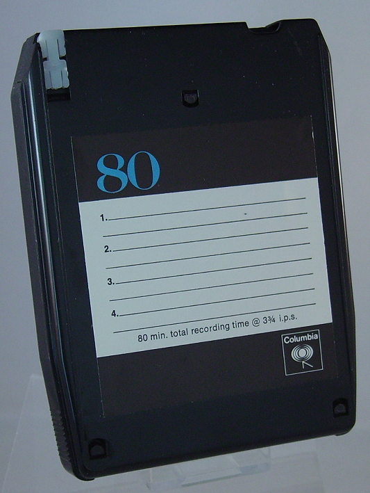 A "Quad-8" Quadraphonic 8-track Cartridge